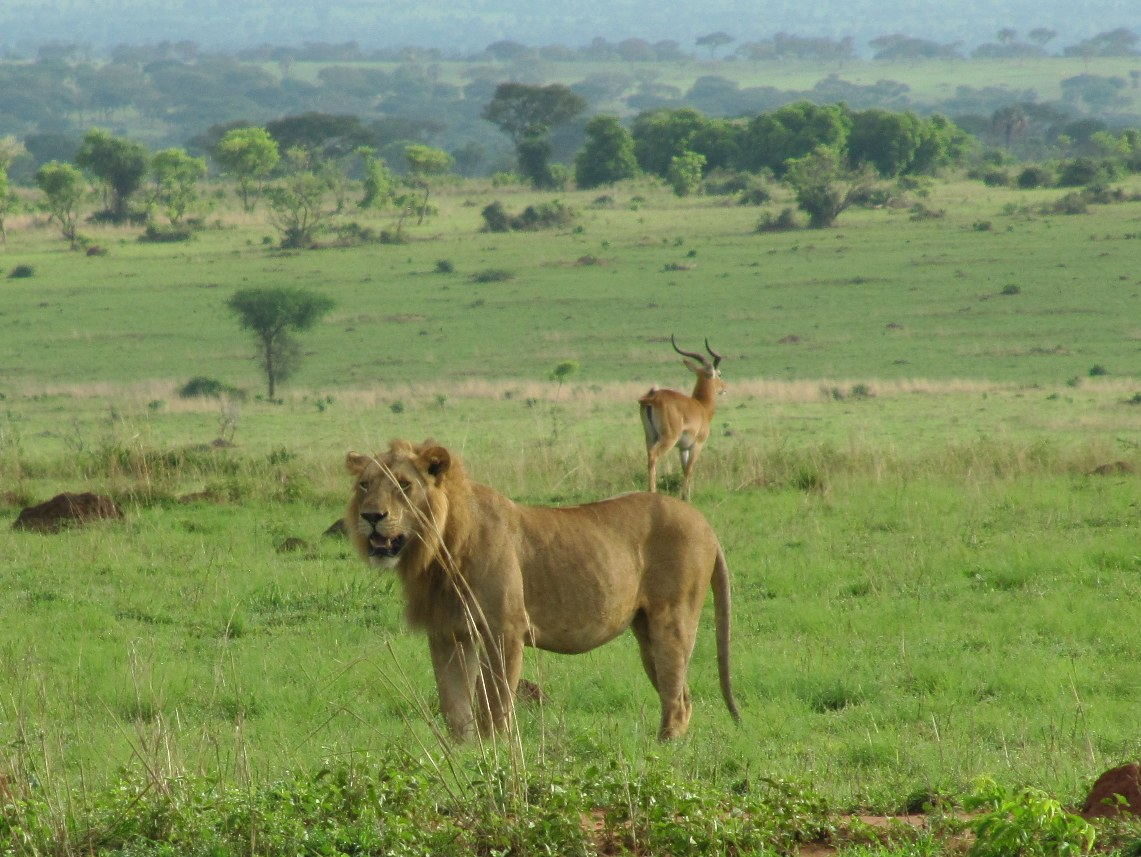 Lion and Ugandan Kob in Murchison Falls National Park